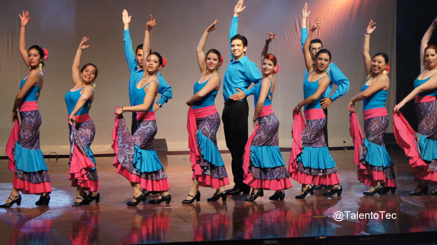 Student performers of Flamenco at "Semana de la cutura" in ITESM CCM.